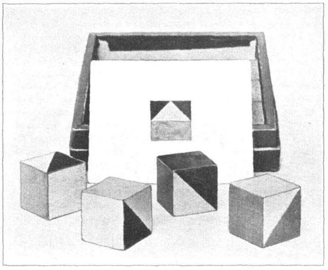 The first figure from "The Block-Design tests" by S.C. Kohs, 1920